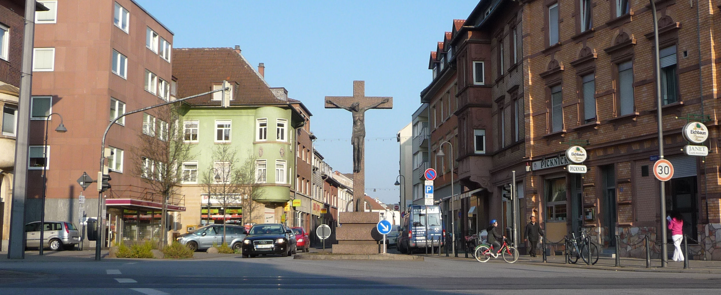 cross in Ludwigshafen, Germany